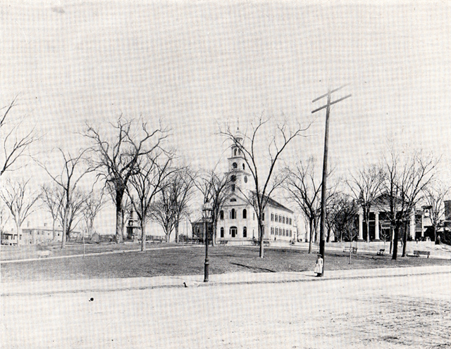 Dorchester photo published in 1895 in Picturesque Roxbury, Jamaica Plain, West Roxbury, Dorchester and Vicinity. The main features of the photo are the Soldiers Monument, First Church and Lyceum Hall.